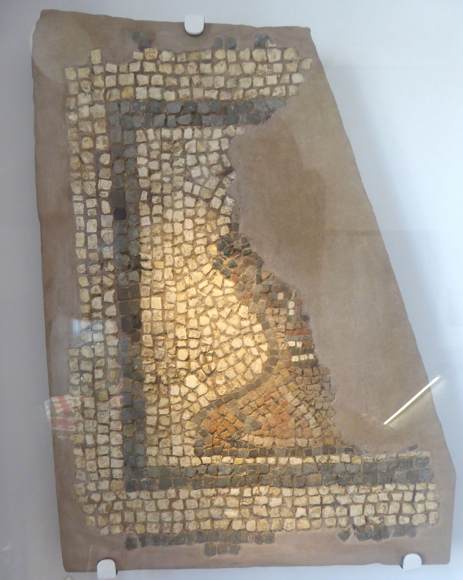 Mosaic, Verulamium, house XXVII, 2, 4th century; on display in Court House (Town Hall), St. Albans